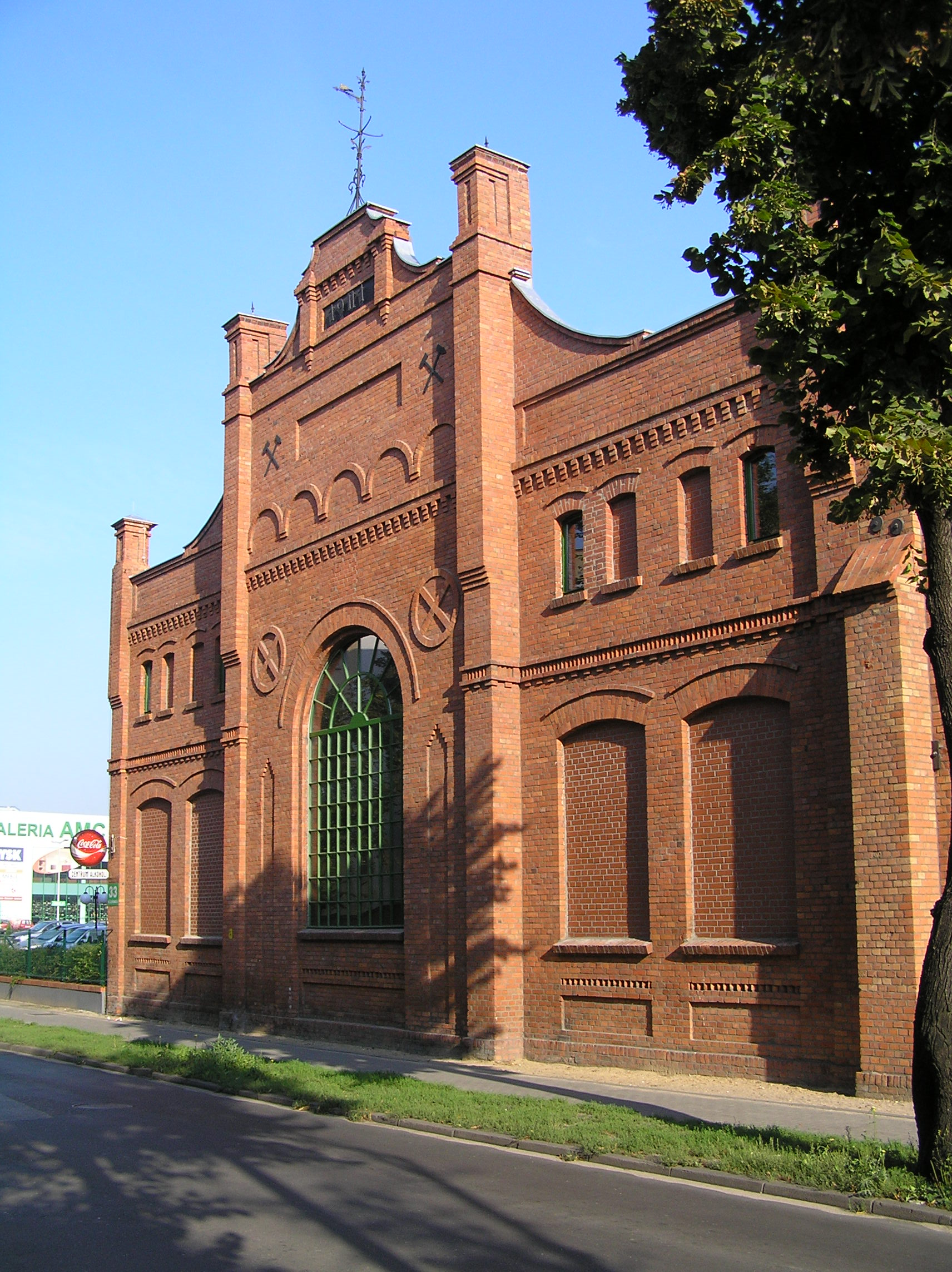 Toruń, Mokre district, former Born & Schütze factory